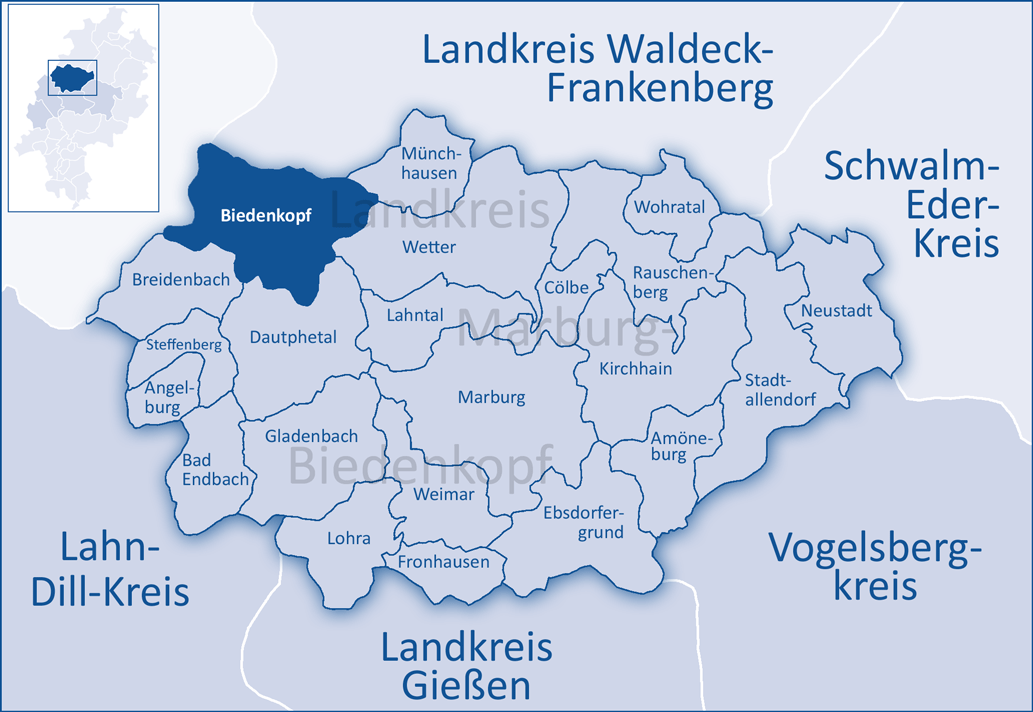 The map shows the municipal territory of Biedenkopf in the district of Marburg-Biedenkopf.